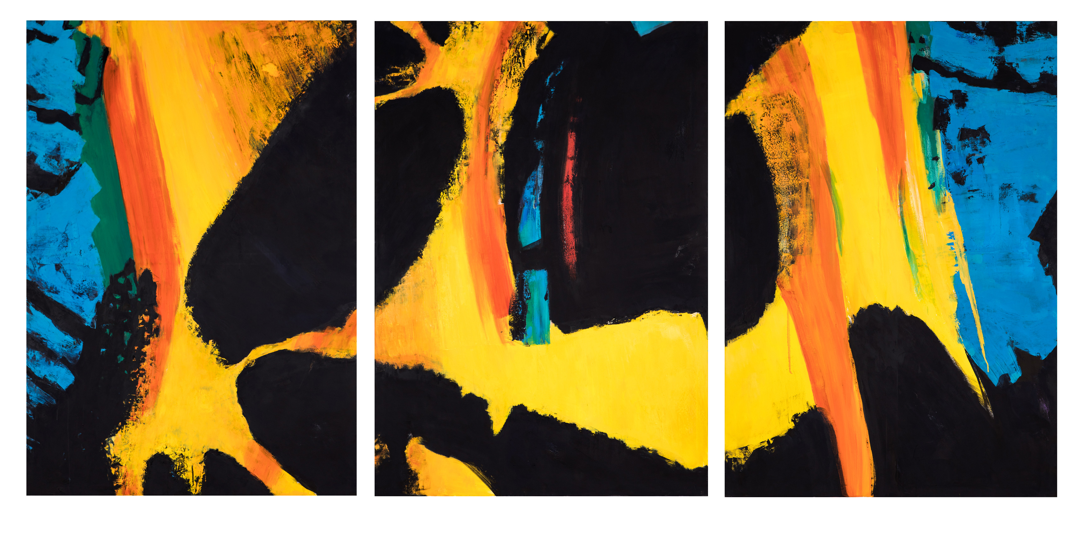 Painting